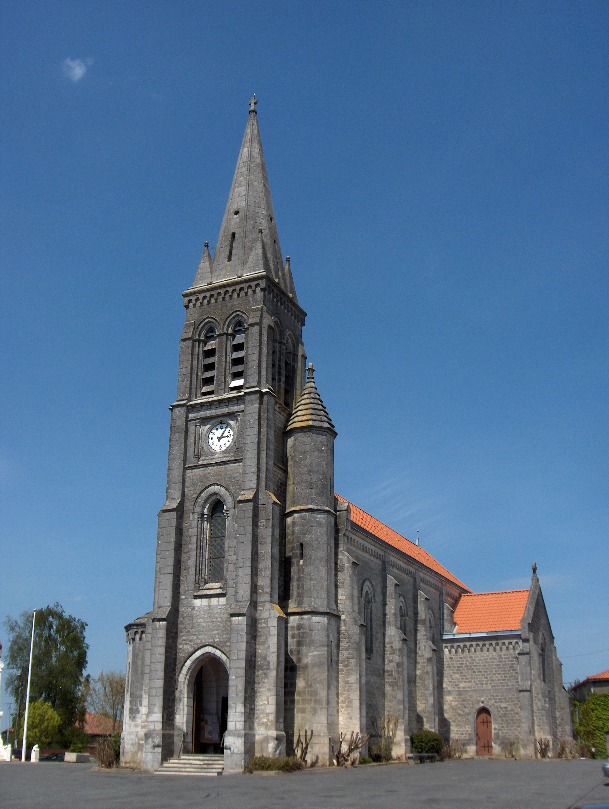 Church of Montemboeuf - Charente - France - Europa